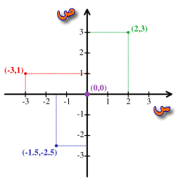 Cartesian Coordinate System